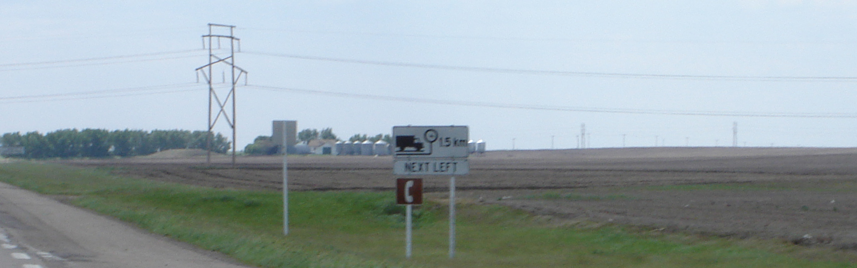 Truck Weigh Scale 1.5 km - Next Left, Telephone Road Signage Photo taken from Saskatchewan Highway 11, Louis Riel Trail travelling south from Saskatoon to Regina